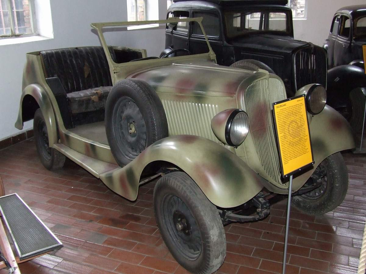 Polish World War II military car Fiat 508 Łazik, Muzeum Przemysłu (Industry Museum) in Warsaw